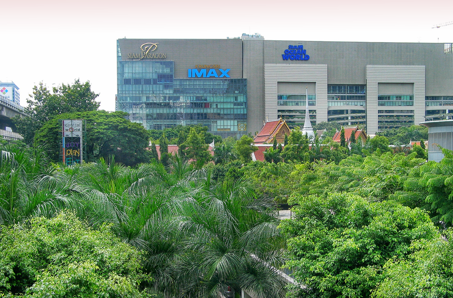 Bangkok: Paragon shopping complex with Wat Pathum Wanaram